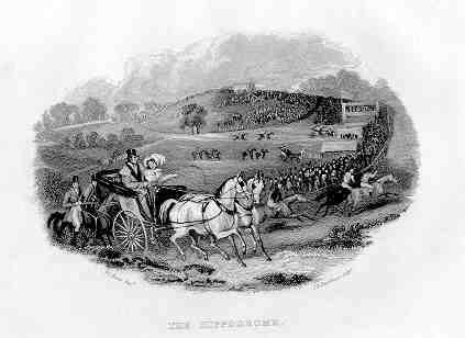 1841 engraving of kensington hippodrome